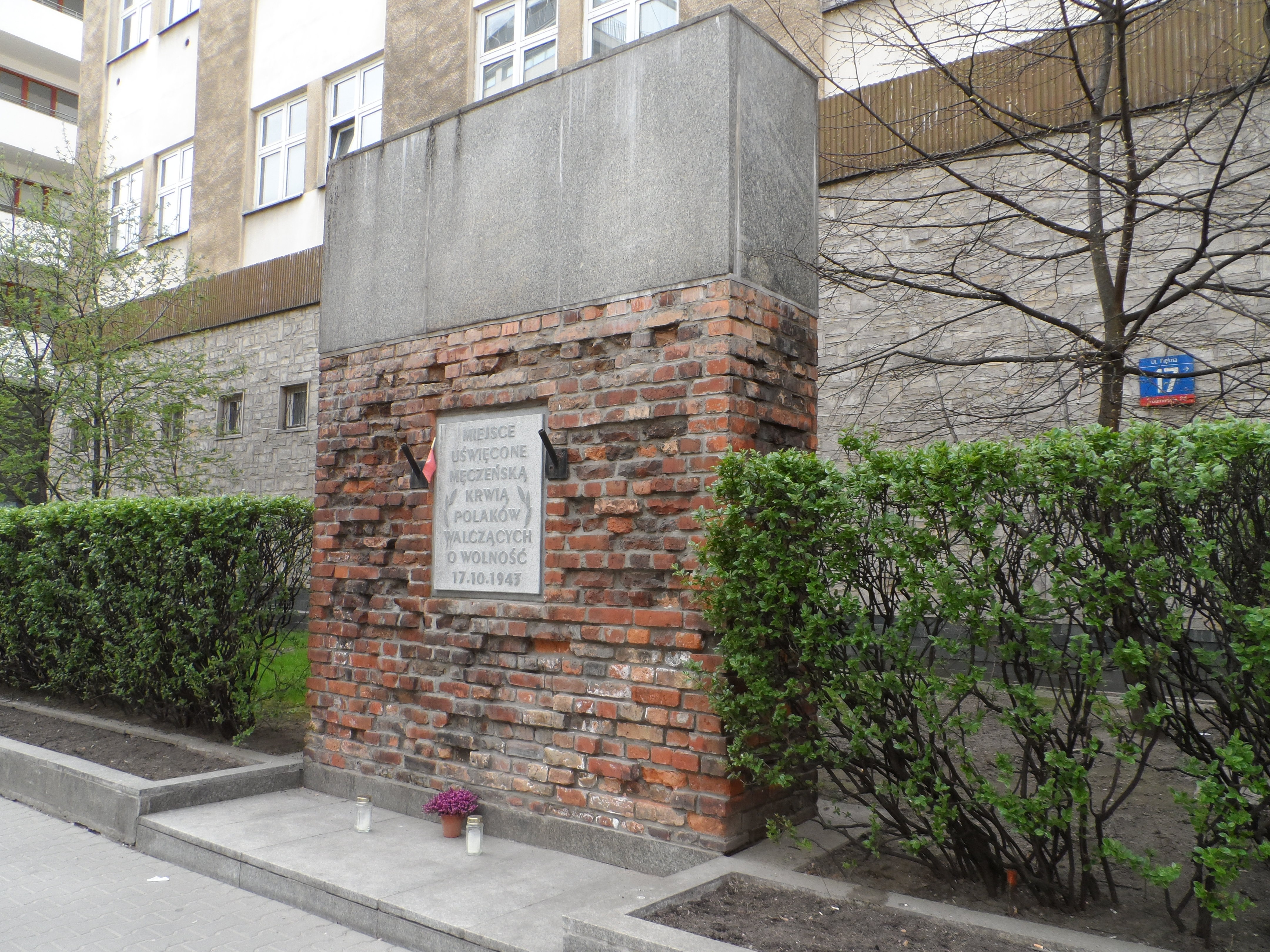 Plaque at 17 Piękna Street in Warsaw, commemorating about 20 Polish hostages murdered in this place by Nazi-Germans in street execution on 17th October 1943. It was one of the first street executions in German-occupied Warsaw.